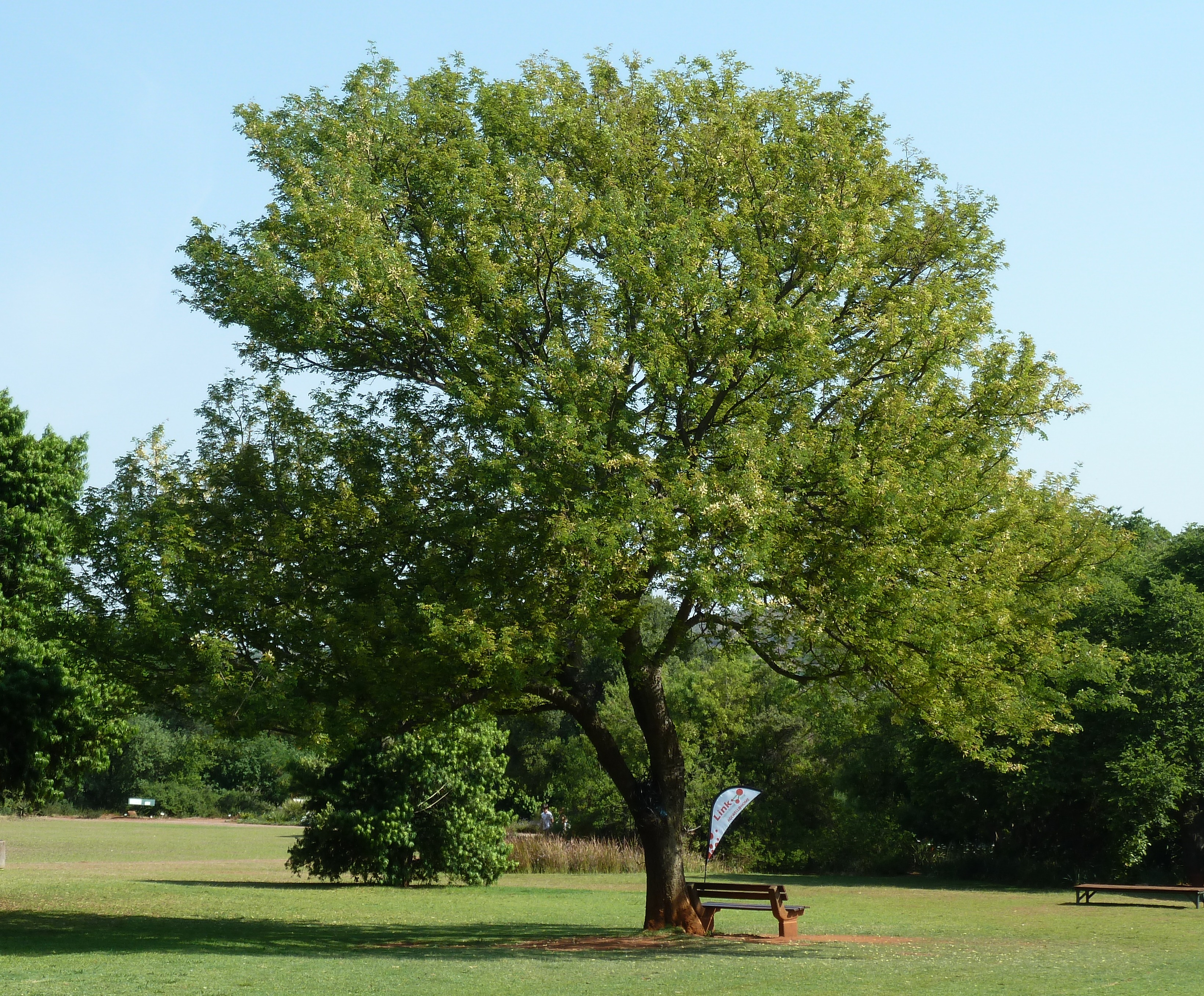 Common hook-thorn in the Pretoria National Botanical Garden, South Africa